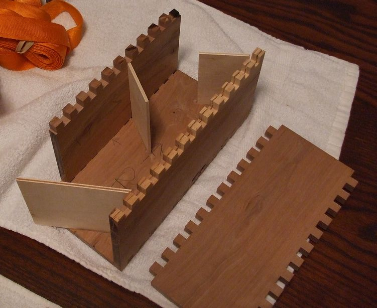 Interior of a dice tower under construction showing three ramps intended to cause the dice to tumble as the fall down the tower.